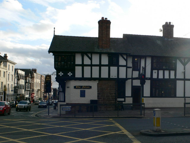 The Falcon, Chester One of Chester's oldest buildings, dating back to the 13th century. Situated on the corner of Lower Bridge Street and restored in 1980.